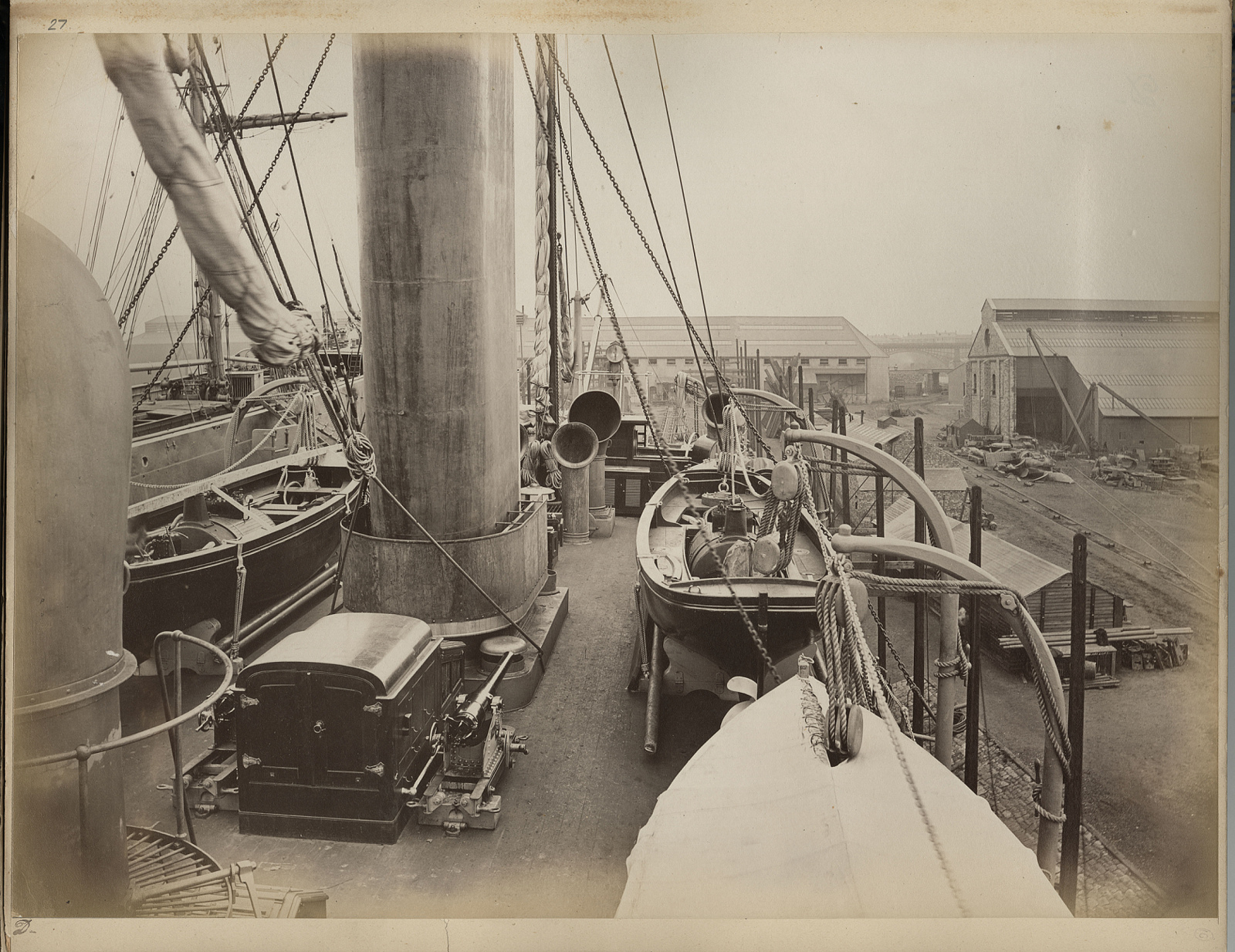 The main deck of the Chinese cruiser Yangwei